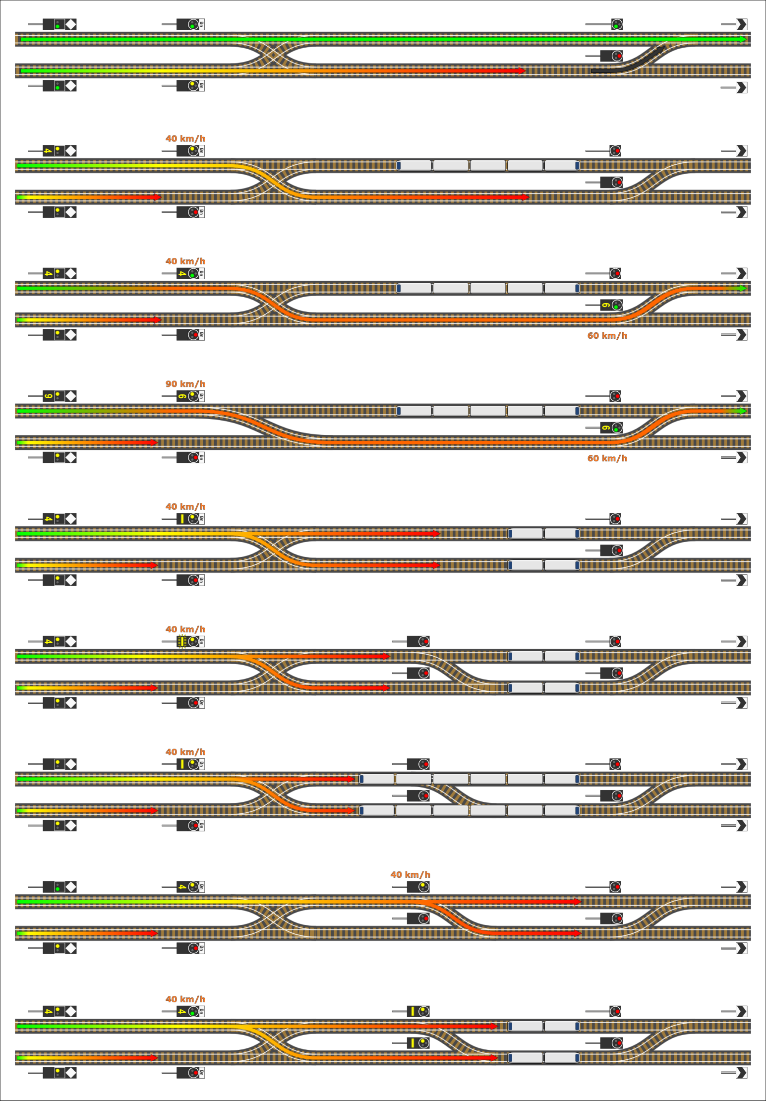 Diagrams of railway signals in Switzerland